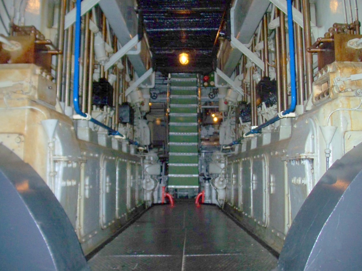 Engine Room, MS "Seefalke", engine by KHD, Köln 1941